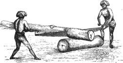 Douglas_Hamilton,_Alan,_Fig._6._Natives_using_the_Saw